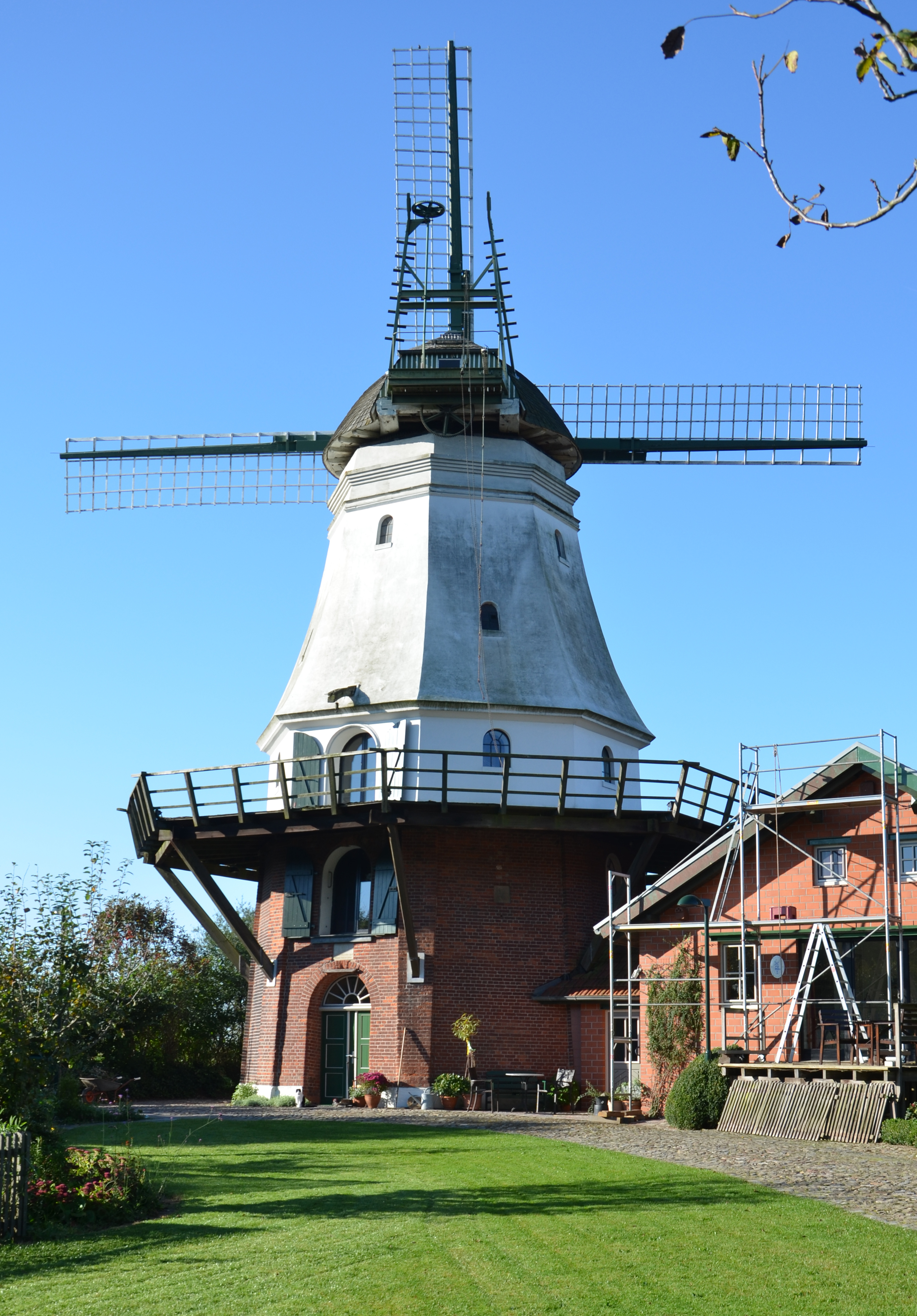 Windmill Bassum